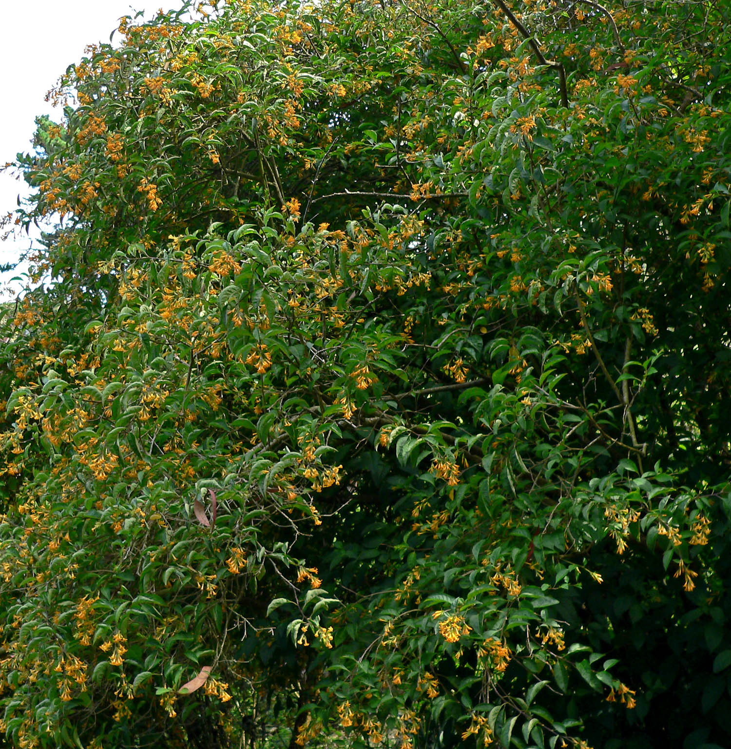 Photo of Cestrum aurantiacum at the San Francisco Botanical Garden